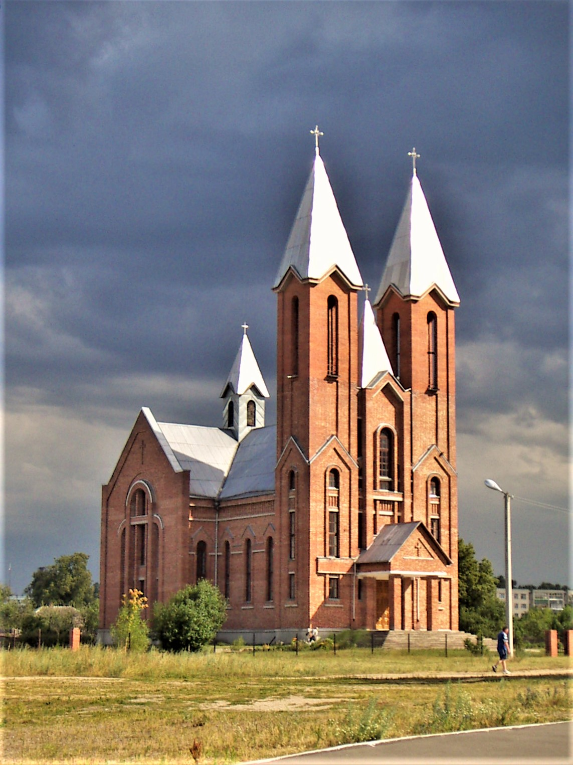 Roman Catholic cathedral in Svelahorsk, Belarus